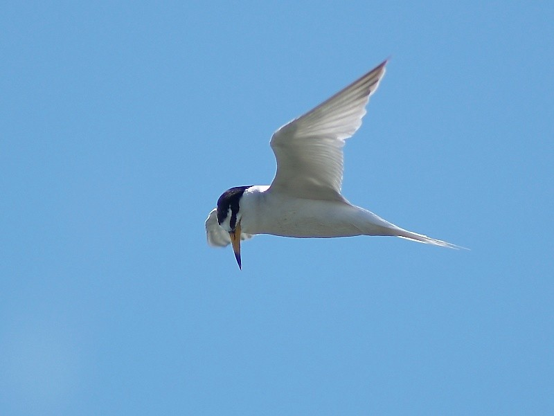 Sternula albifrons（小燕鷗）, Changhua County, Taiwan, 2007.